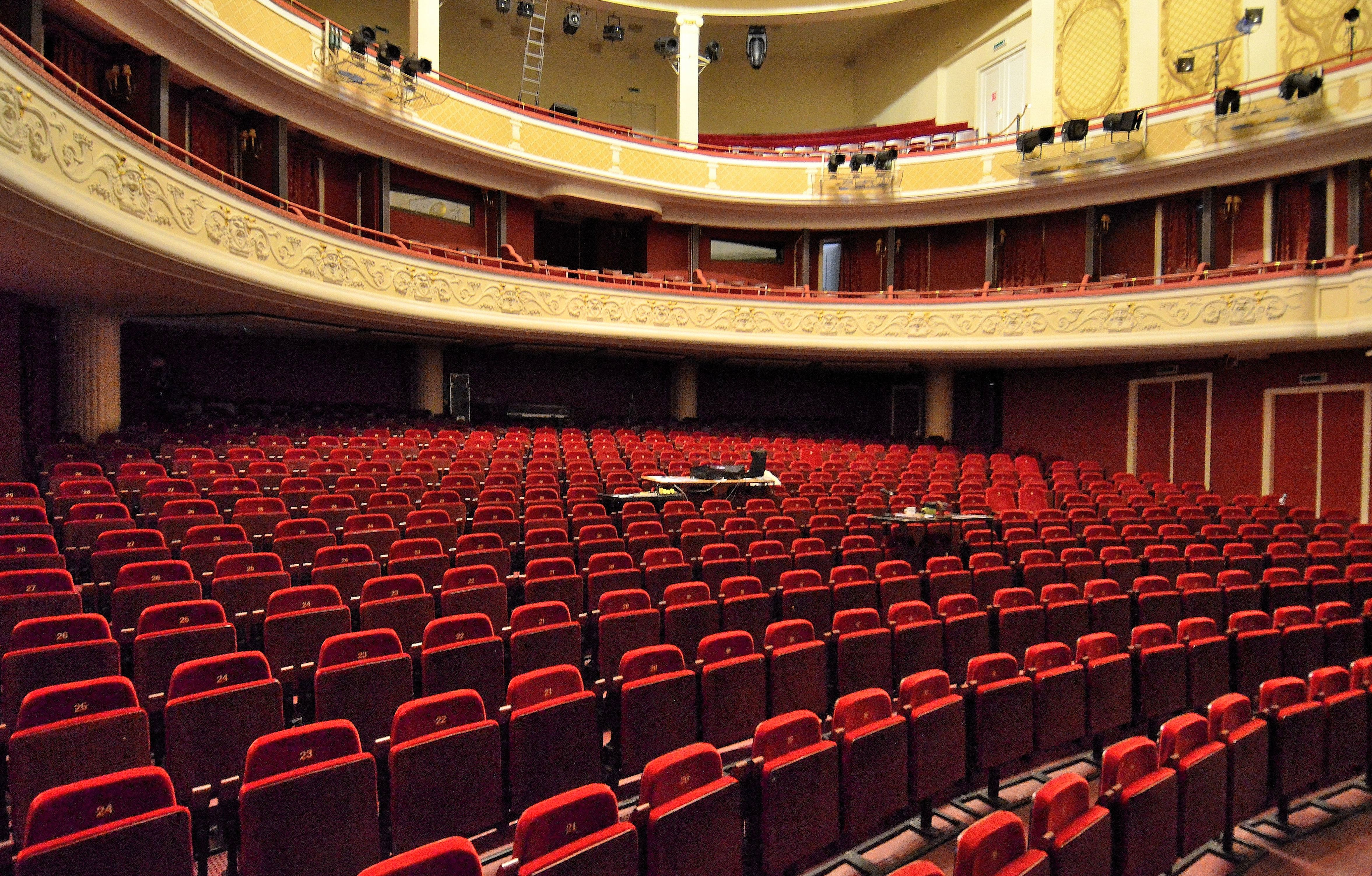 Polish Theatre in Warsaw